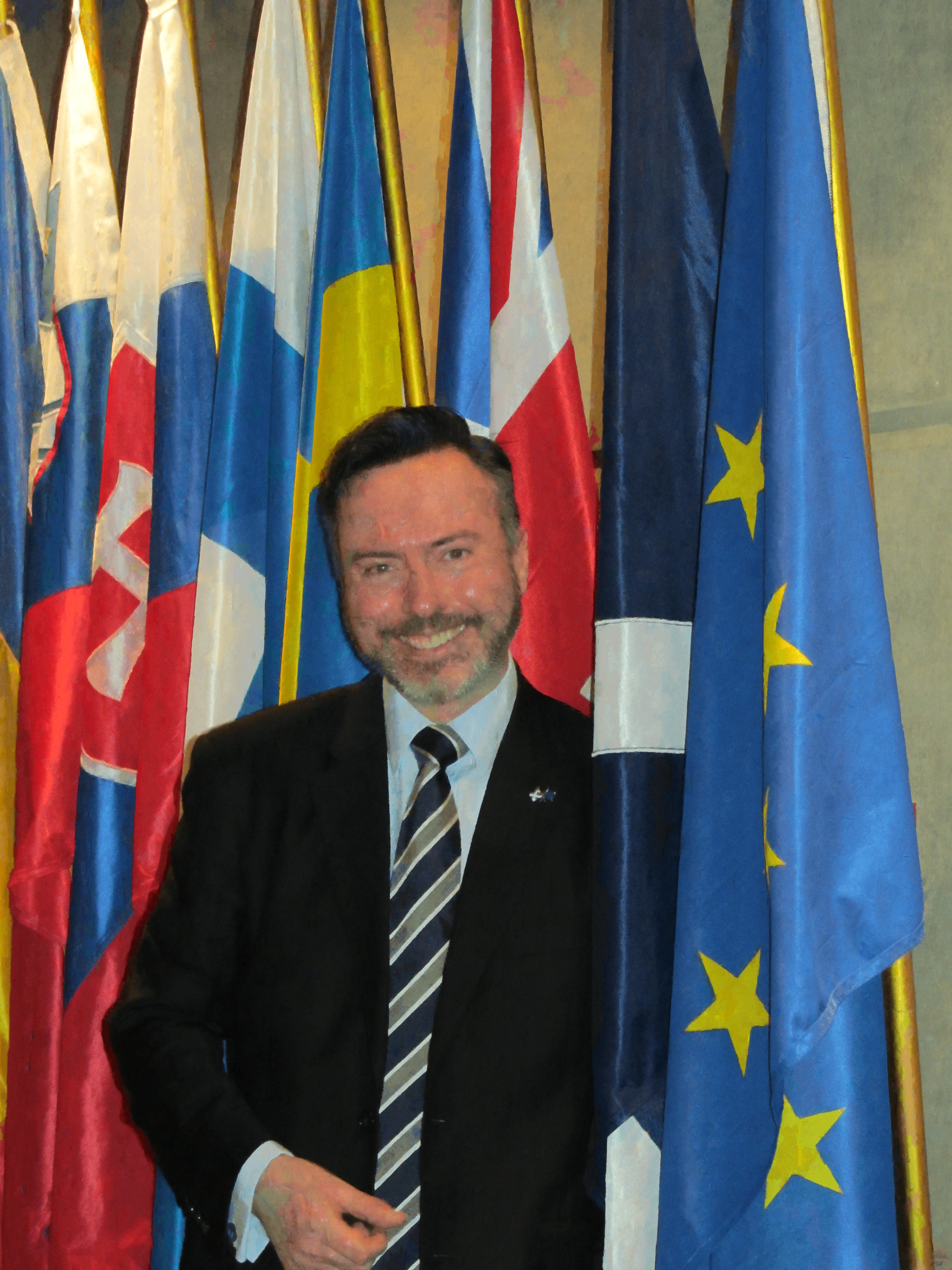 Alyn Smith, MEP.